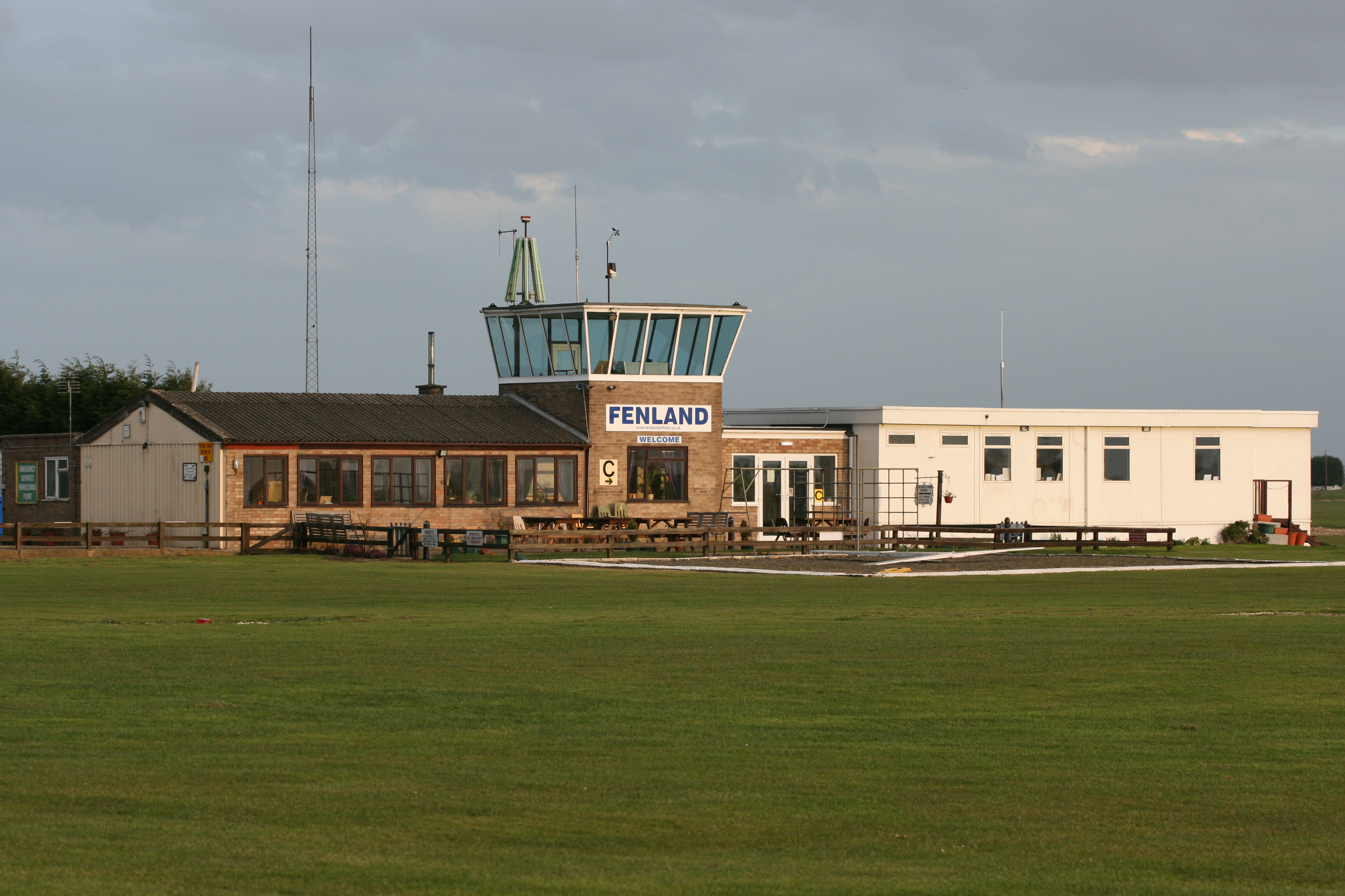 View of the control tower and club house at Fenland Airfield